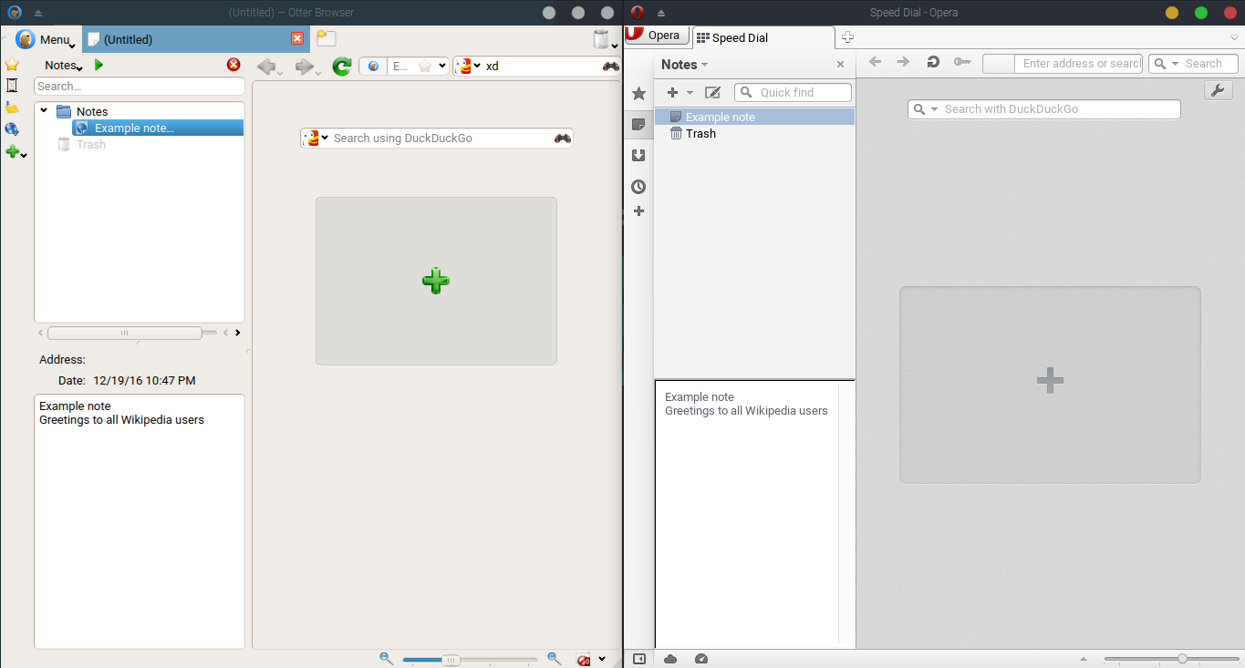 This picture shows comparision of UI in Otter and Opera web browsers.